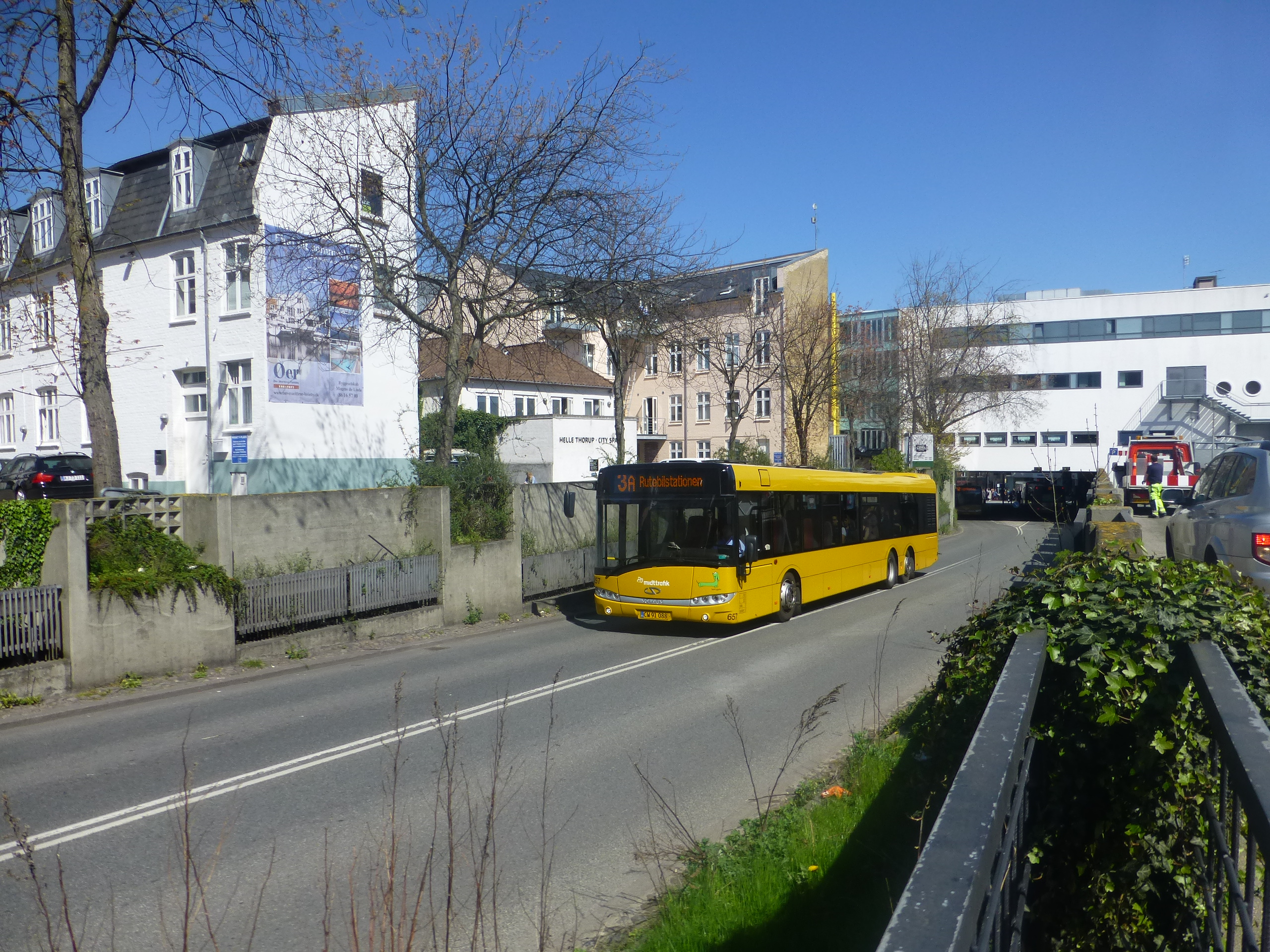 Bus line 3A on Busgaden in Aarhus in Denmark.